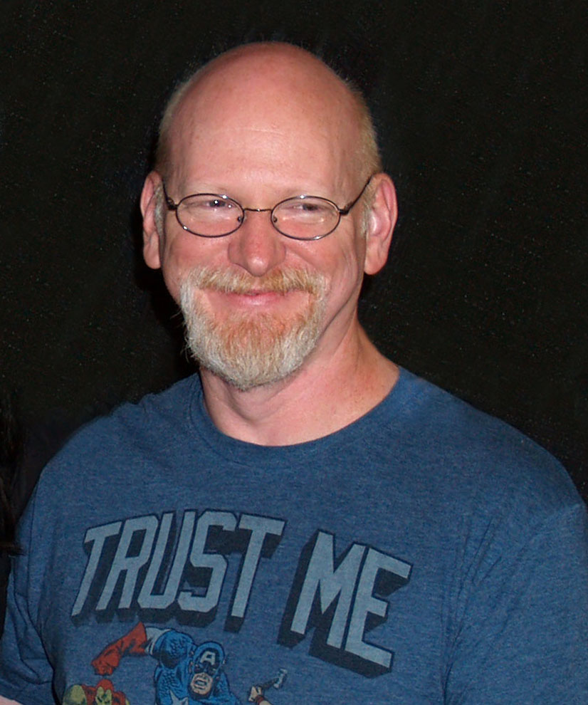 Comics creator Arthur Adams at the Meadowlands Exposition Center in Secaucus, New Jersey on April 11, 2015, Day 1 of the 2015 East Coast Comicon. This photo was created by Luigi Novi. It is not in the public domain, and use of this file outside of the licensing terms is a copyright violation.